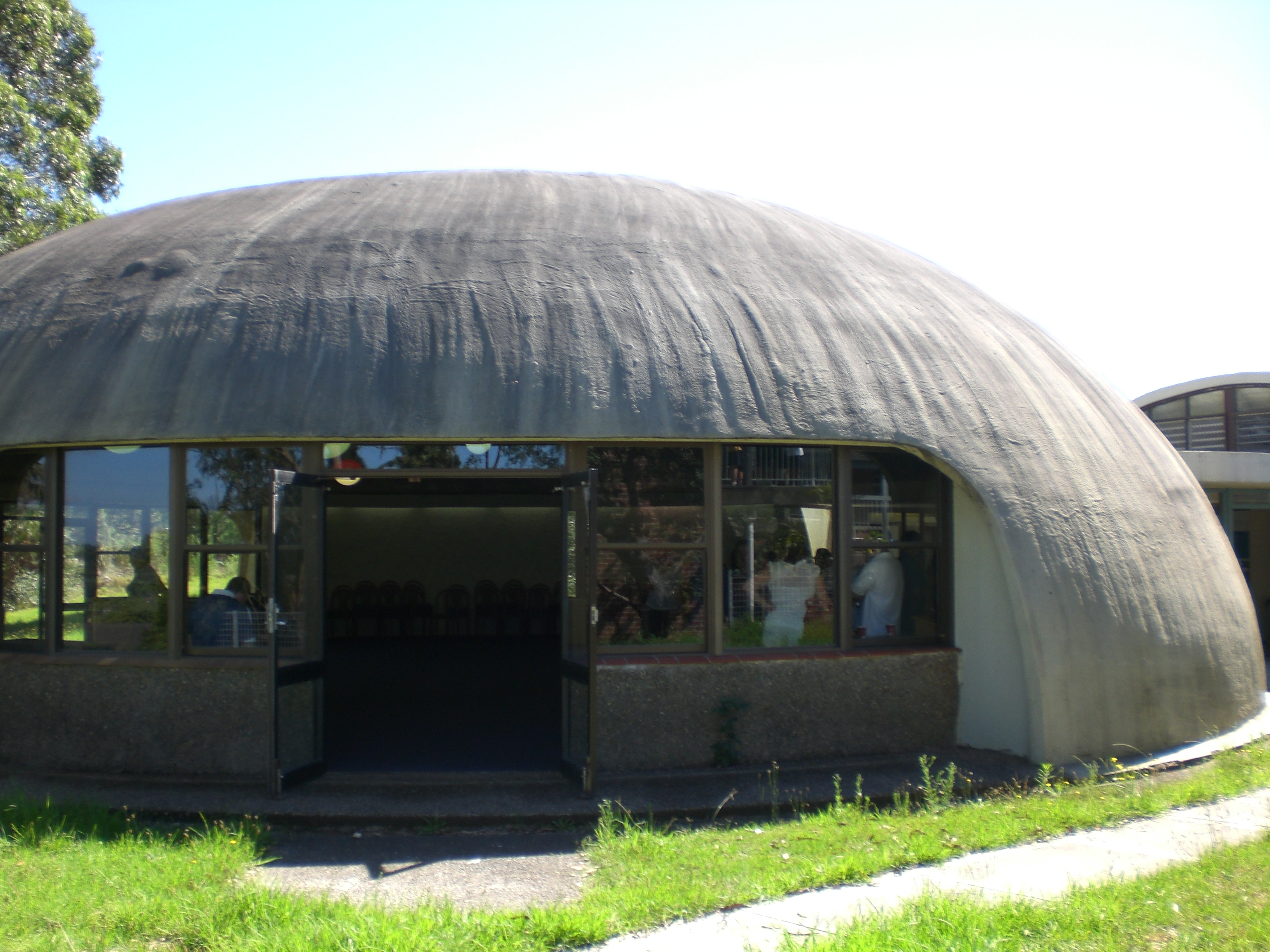 See other views of this building here: This is an external view of the main entrance to the Bini shell complex of the KillarneyHeights Public School. Constructed in the early 1970s, it was originally used as a library and now serves as a general purpose meeting room and indoor sporting venue for gymnastics. Due to the low hanging pendant lights and glass windows it is not suited for other sporting uses. From the offical website of the Binishell construction system: "This patented method of construction, in approx. 60-120 minutes, produces circular-based, monolithic, reinforced concrete shell structures, with elliptical section, ranging in size from 12 to 40 meters in diameter. Over 1,500 buildings are in use in 23 Countries." It was devised by Dr. Dante N. Bini, and in the 1970s the New South Wales Department of Public Works used this construciton method to create spaces in many public school. Here is the offical brochure: and a quote from the brochure: "The major advantages of the Binishell system are speed of construction and minimized use of labour and materials resources, which make possible economies in capital construction costs. The concept of the dome, with its uninterrupted floor area, offered considerable advantages in providing educational needs in multi-purpose centres within schools, and libraries in primary schools."